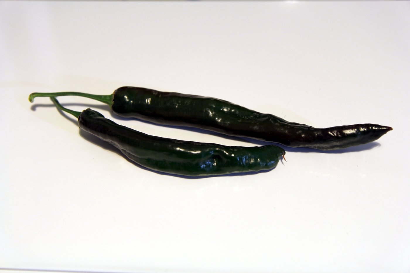 Two fresh chilaca chillies (dried: "pasilla"), grown December 2012, New Zealand.